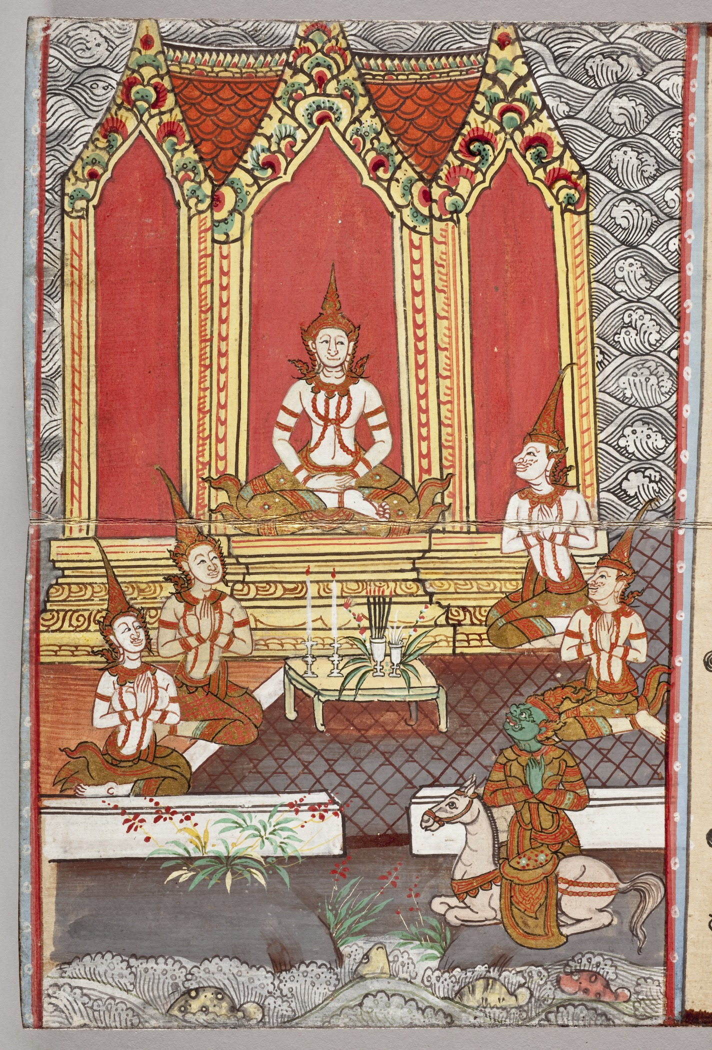 Thailand, circa 1860-1880 Manuscripts Opaque watercolor and ink on paper; Covers: gilded and lacquered paper Gift of Mr. and Mrs. Frank Neustatter (M.76.93.2) South and Southeast Asian Art